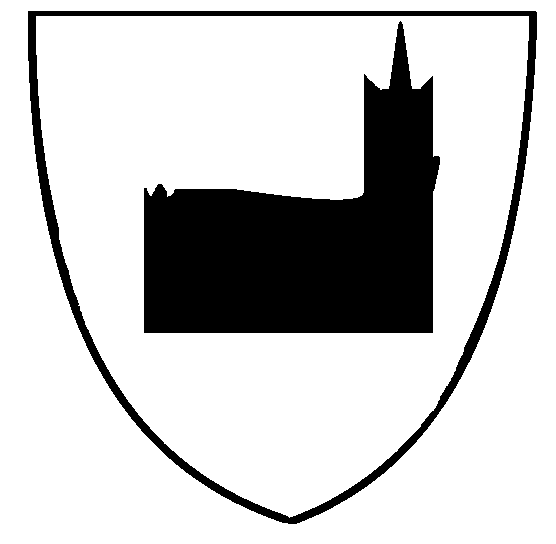 277. Infanterie Division Vehicle Insignia, German Army, World War II